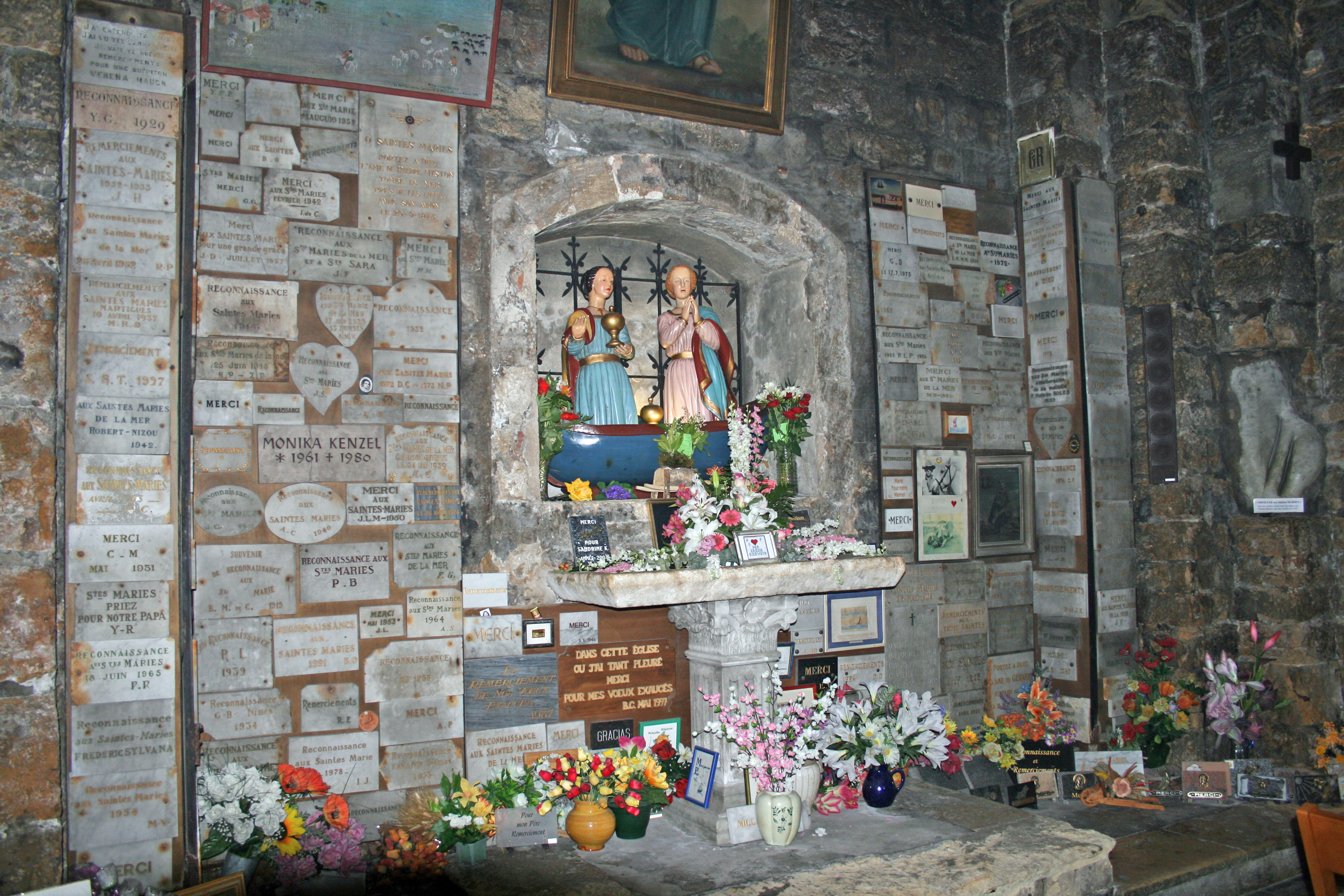 Two holy Mary